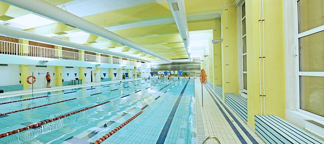 Sesja sportowa ue foto radoslaw kazmierczak 01